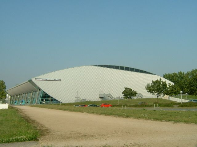 View from the outside of the Ballsporthalle